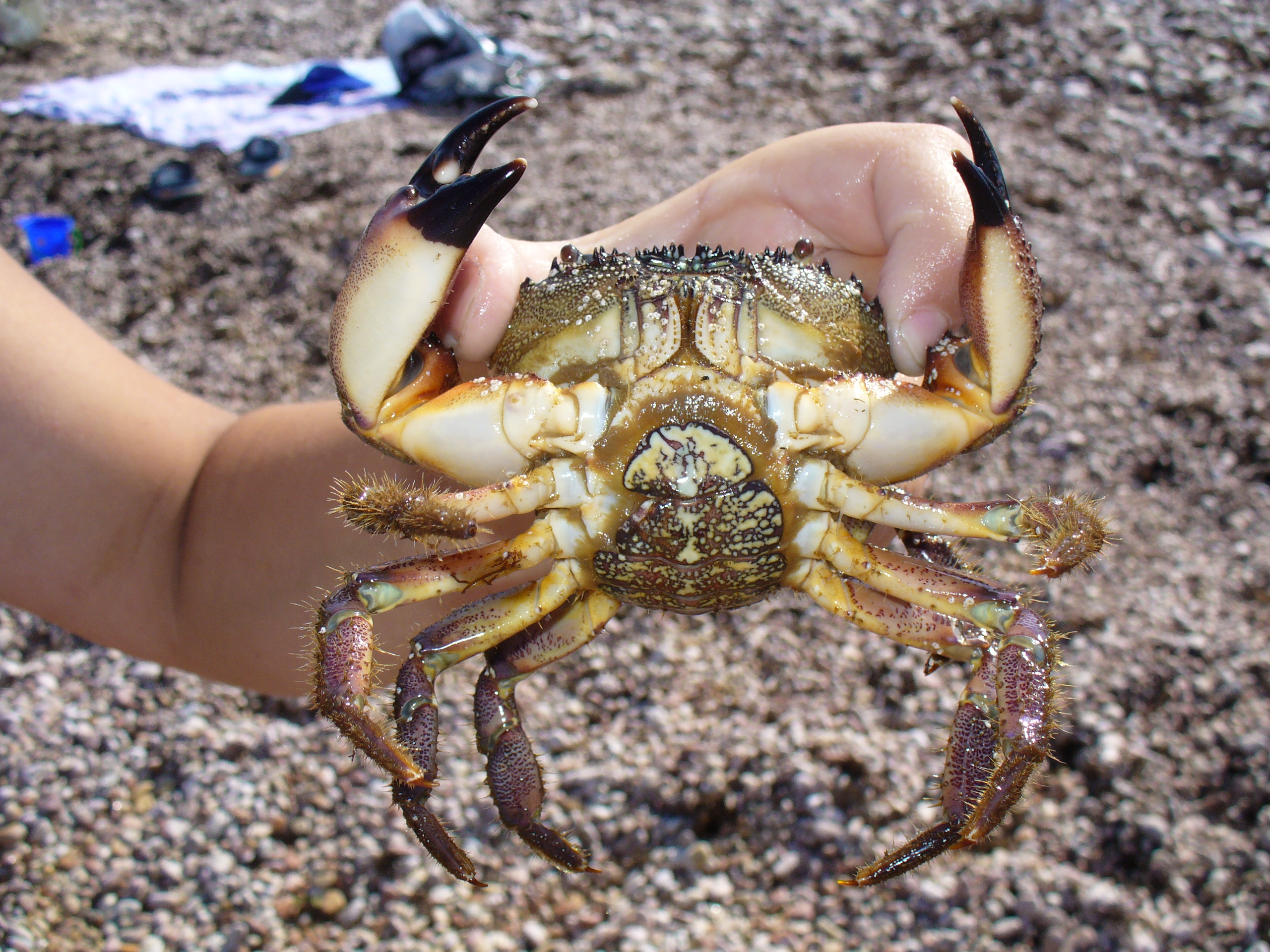 Eriphia verrucosa female, sometimes called the warty crab or yellow crab. Tail is a bit damaged.